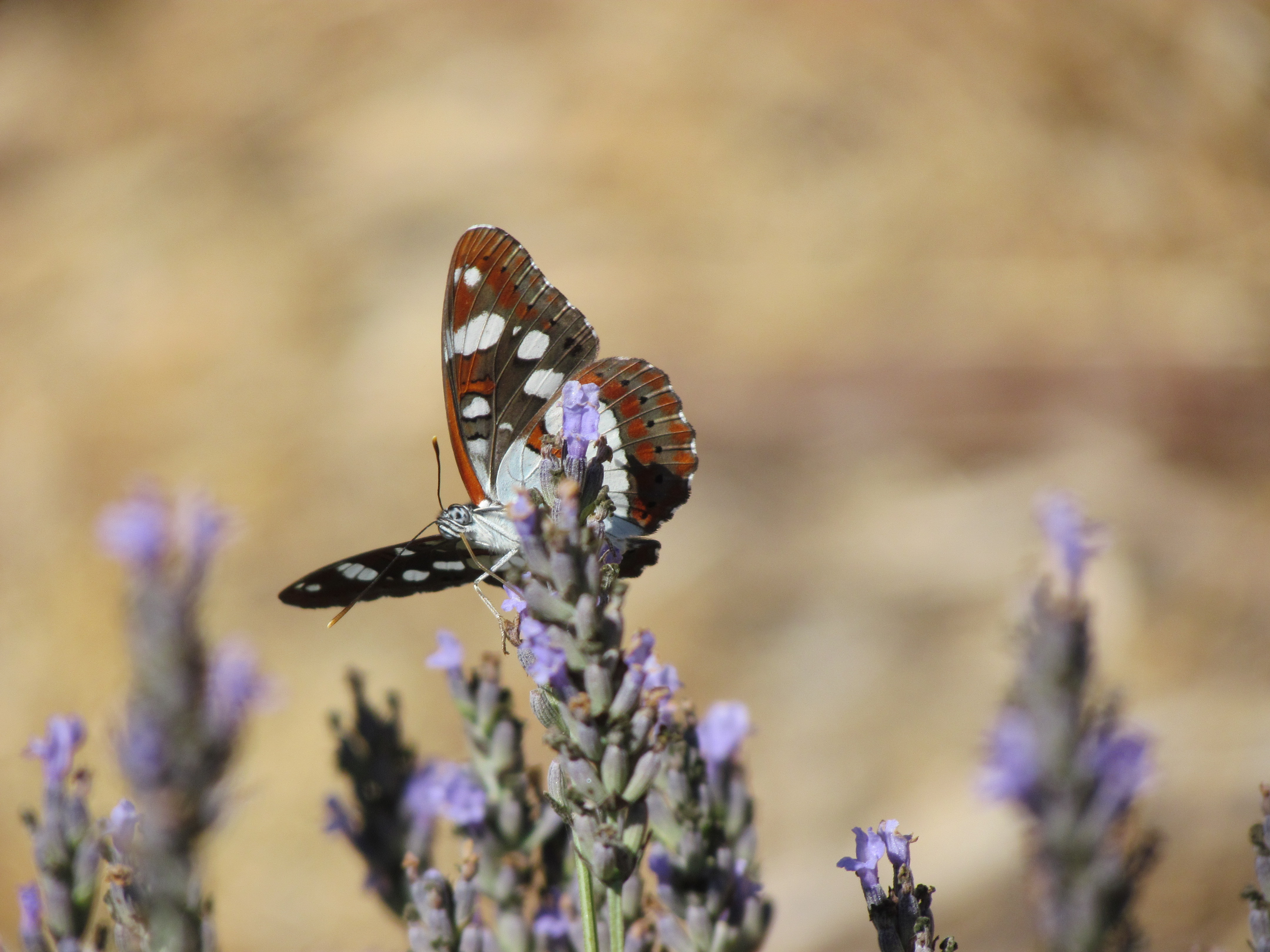 נימפית היערה (Limenitis reducta) בגן הבוטני האוניברסיטאי בירושלים